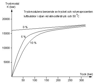 Value of bulk modulus depending on volume % air in the oil and oil pressure.